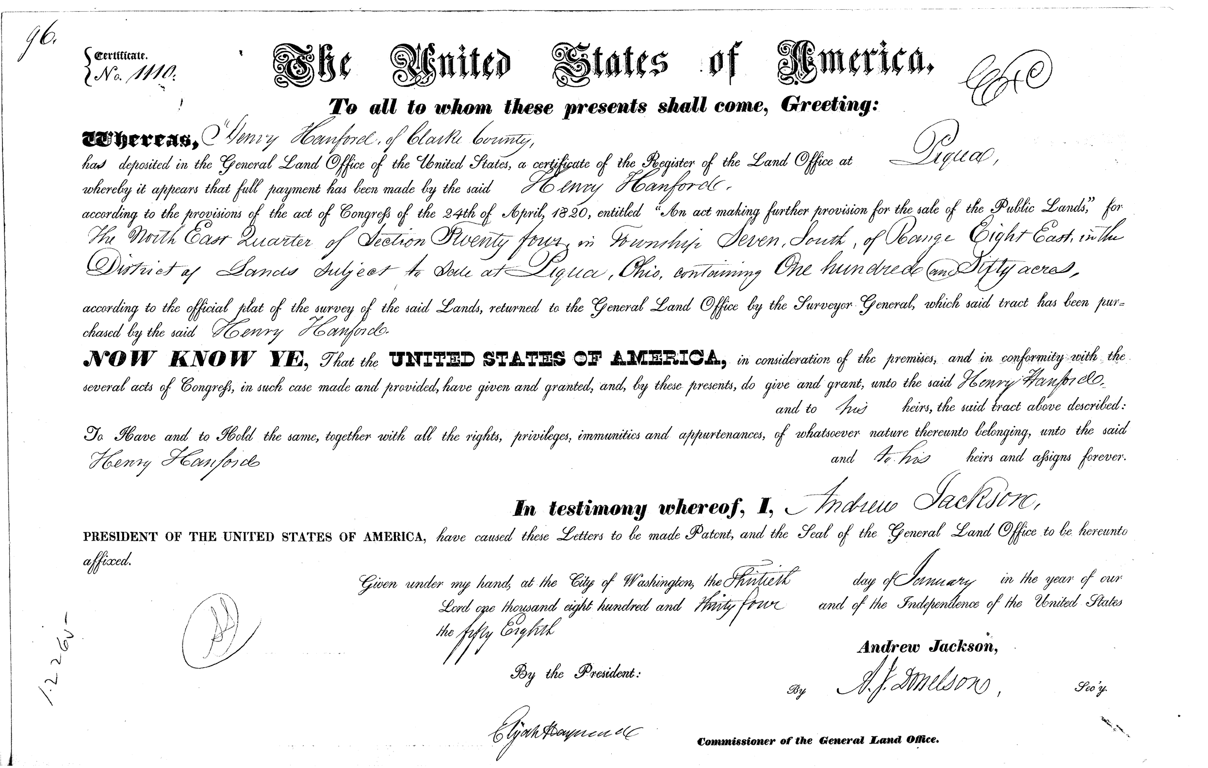 Land patent, Doc. Nr. 1110. Patentee Name: Henry Hanford. Logan Co., Ohio, 30th January 1834